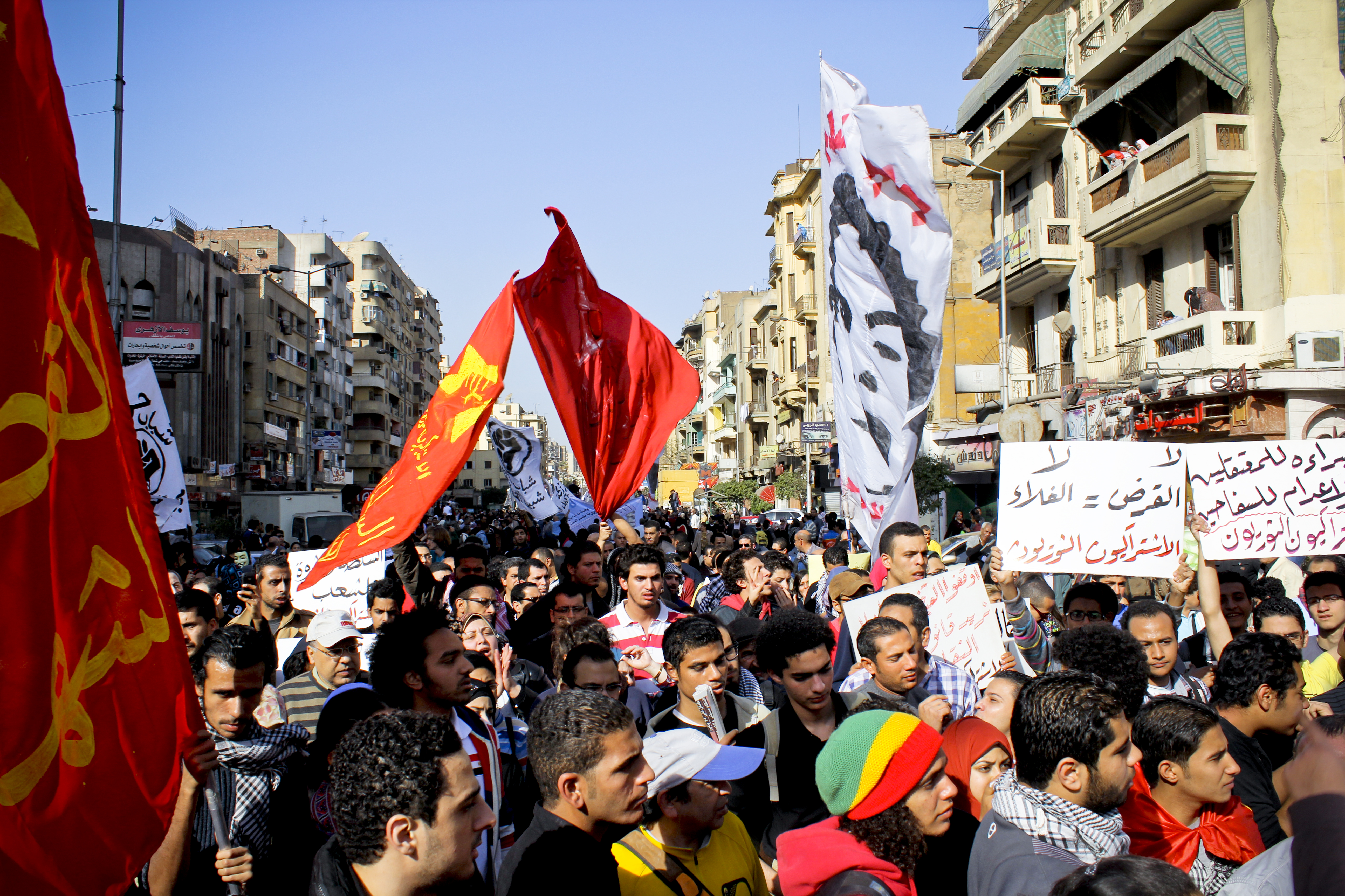 Shubra March to Tahrir #Jan25